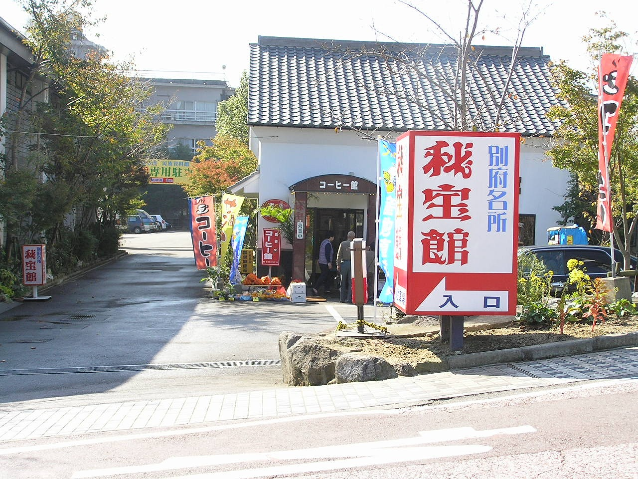 Beppu Hihonkan is a sex museum next to the Shiraike-Jigoku in the Kannawa Jigoku area.